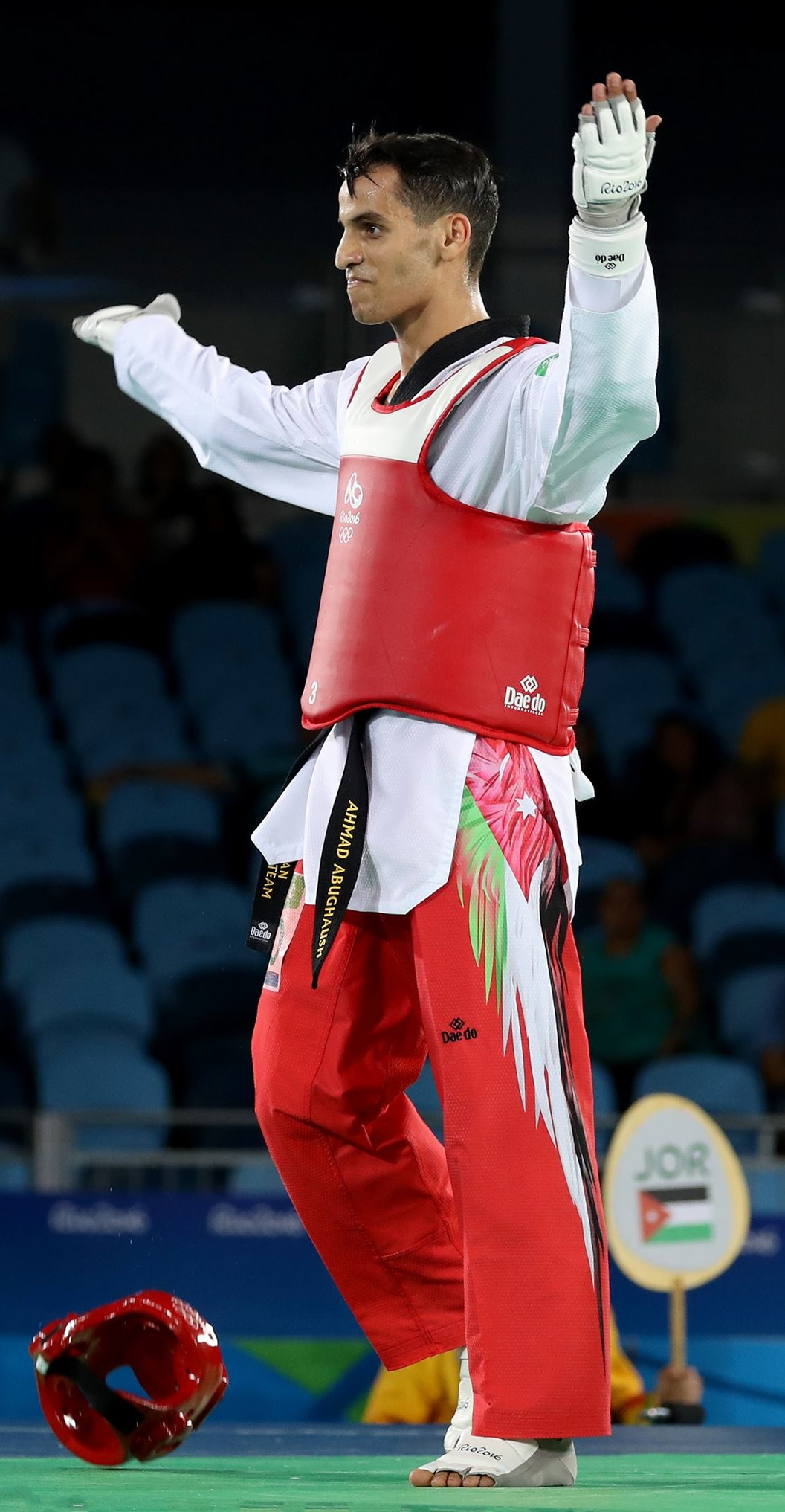 Ahmad Abughaush by Salem Khames the 2016 Summer Olympics in Rio de Janeiro, in the men's 68 kg